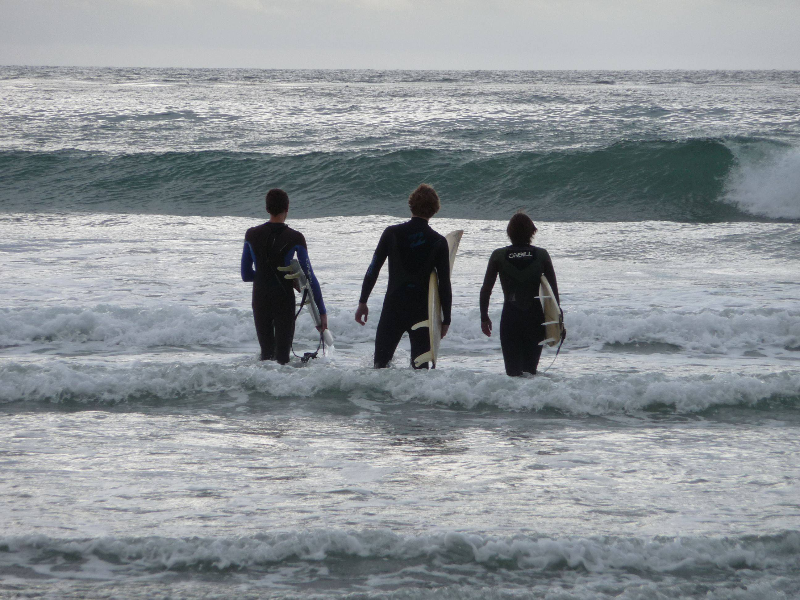 Three surfers preparing to surf at Cardiff-by-the-Sea surf spot, Cardiff Reef.